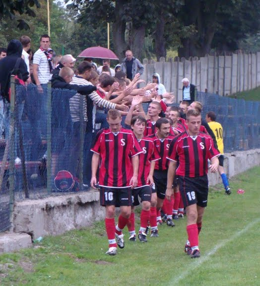 M-G LKS Sarmata Dobra